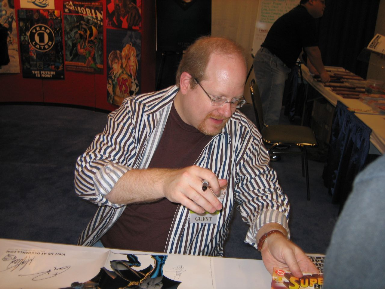 Comic-book writer and editor Mark Waid signing a issue of Superman: Birthright during the WonderCon 2006.Mark Waid